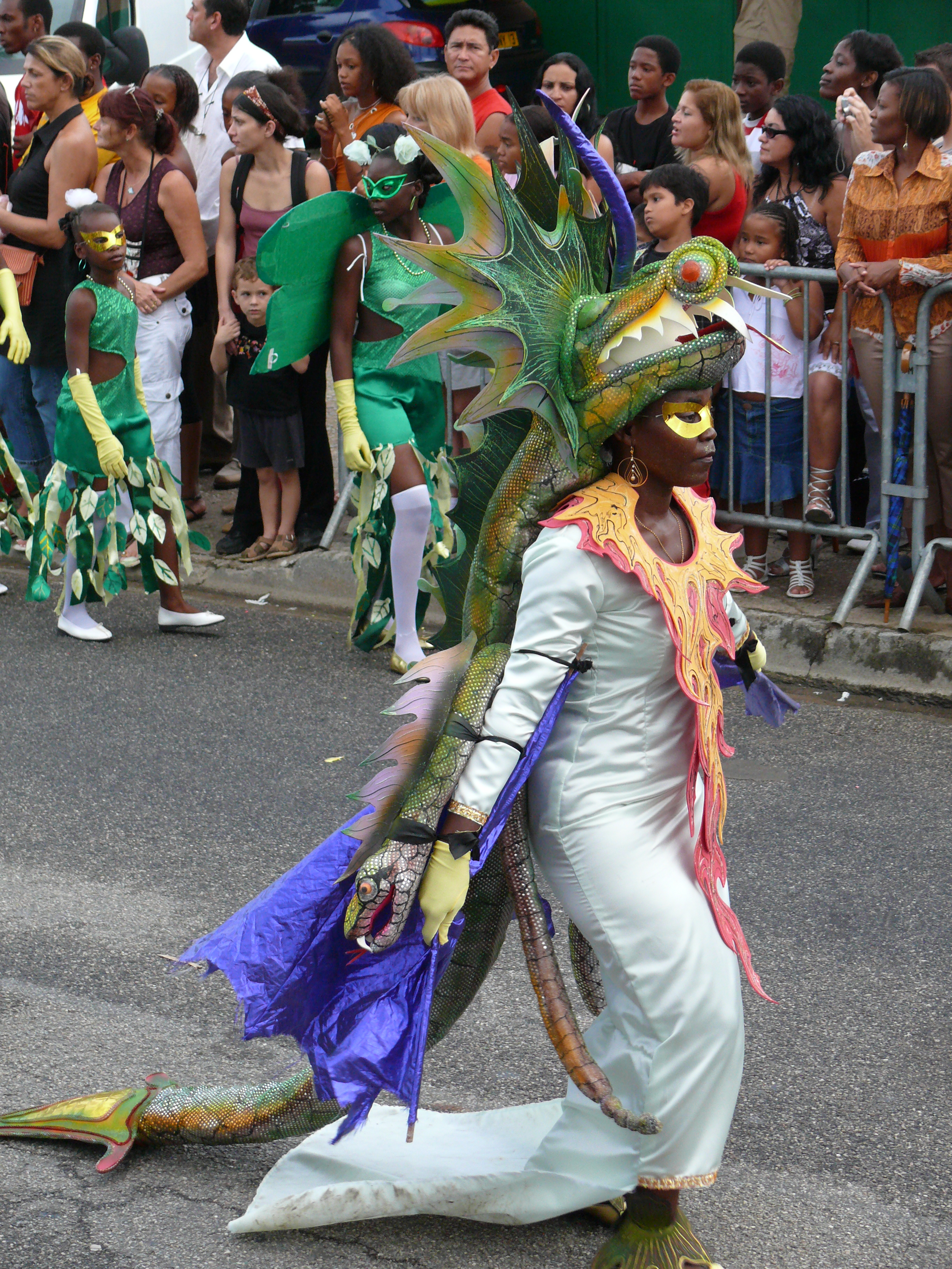 Creole woman at Kourou's Carnival parade, 2007.